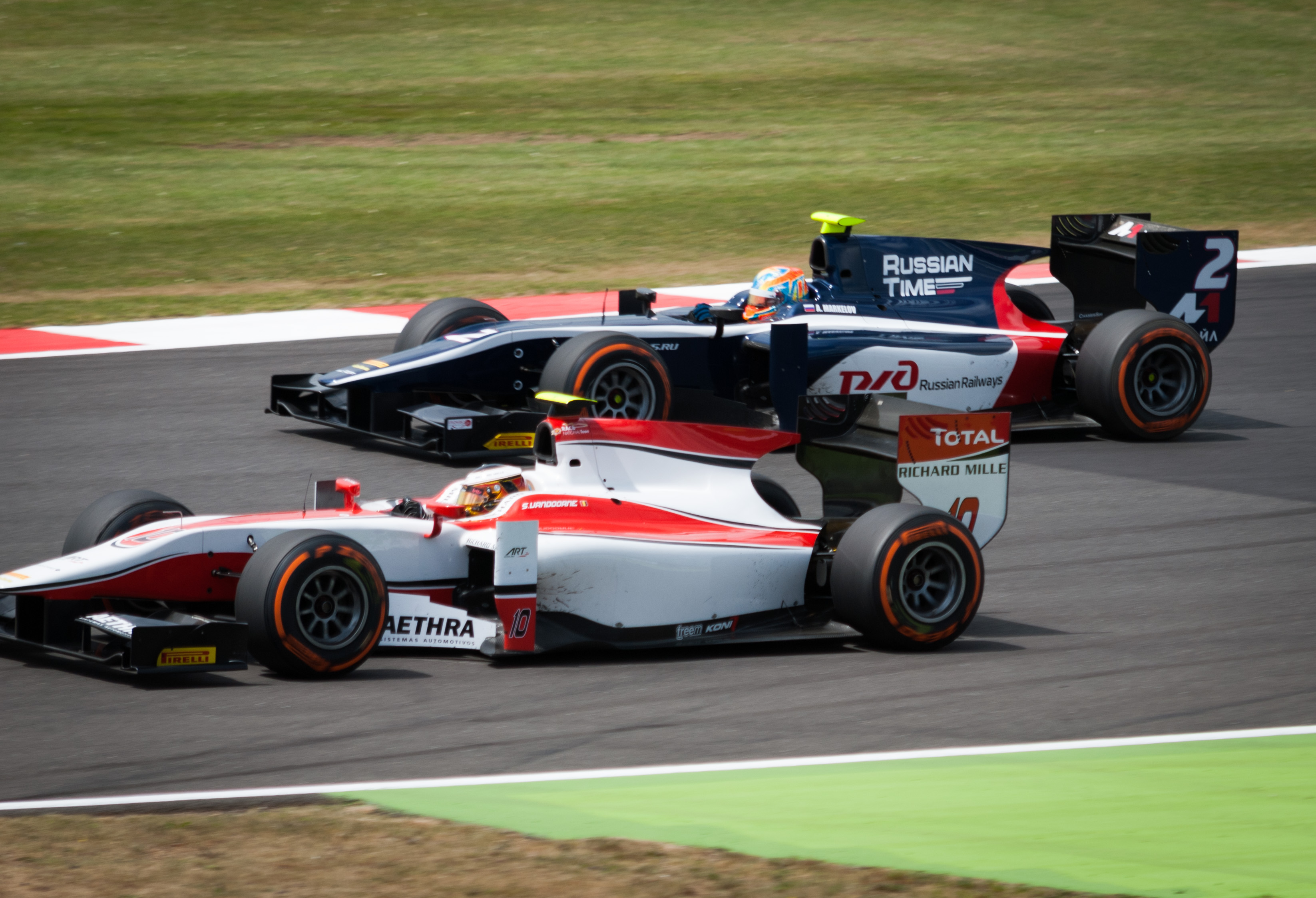 Stoffel Vandoorne (10) vs. Artem Markelov (2). Round 5 of the 2014 GP2 Series Championship at Silverstone.